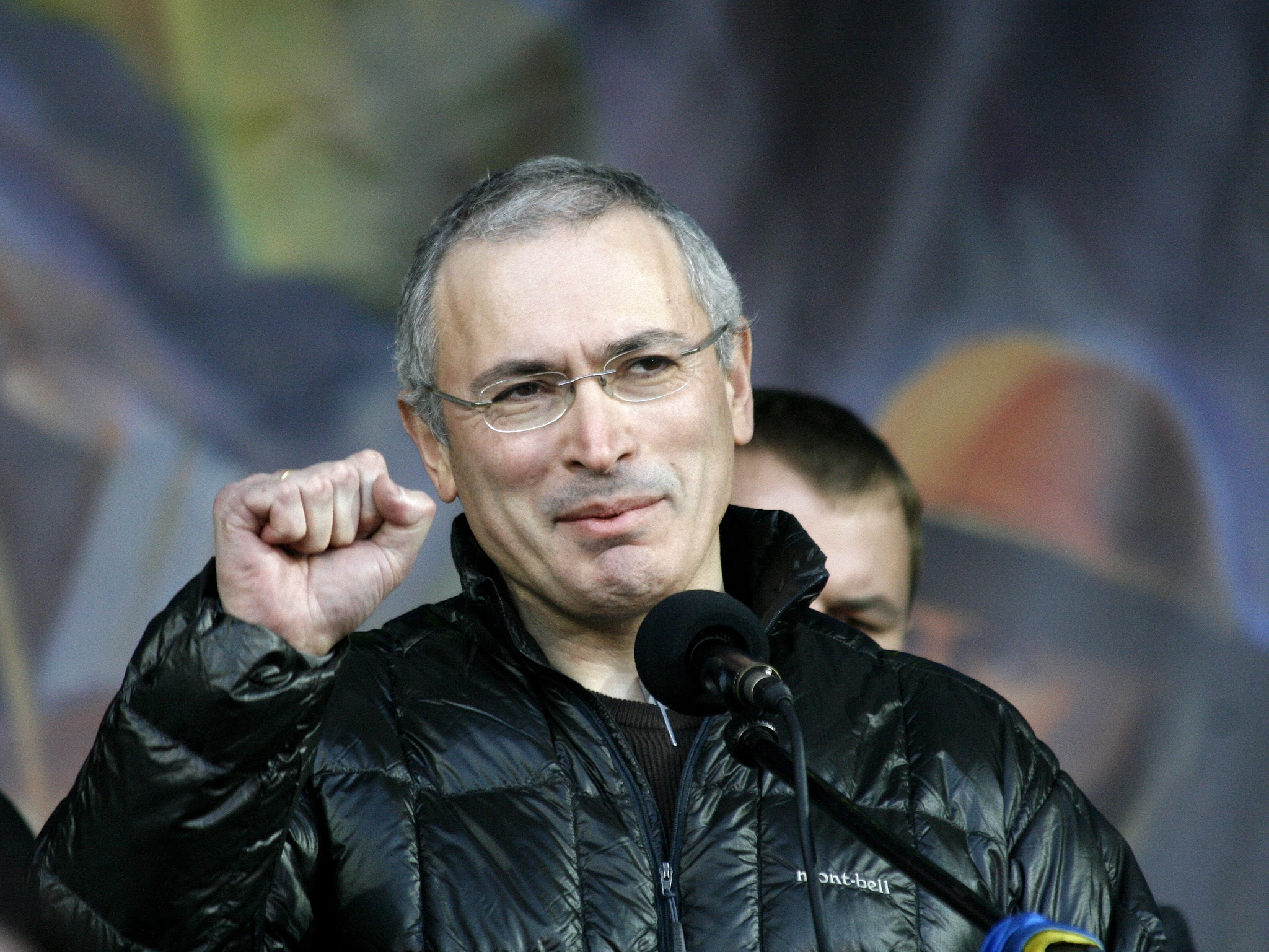 Mikhail Khodorkovsky at Maidan in Kyiv, Ukraine